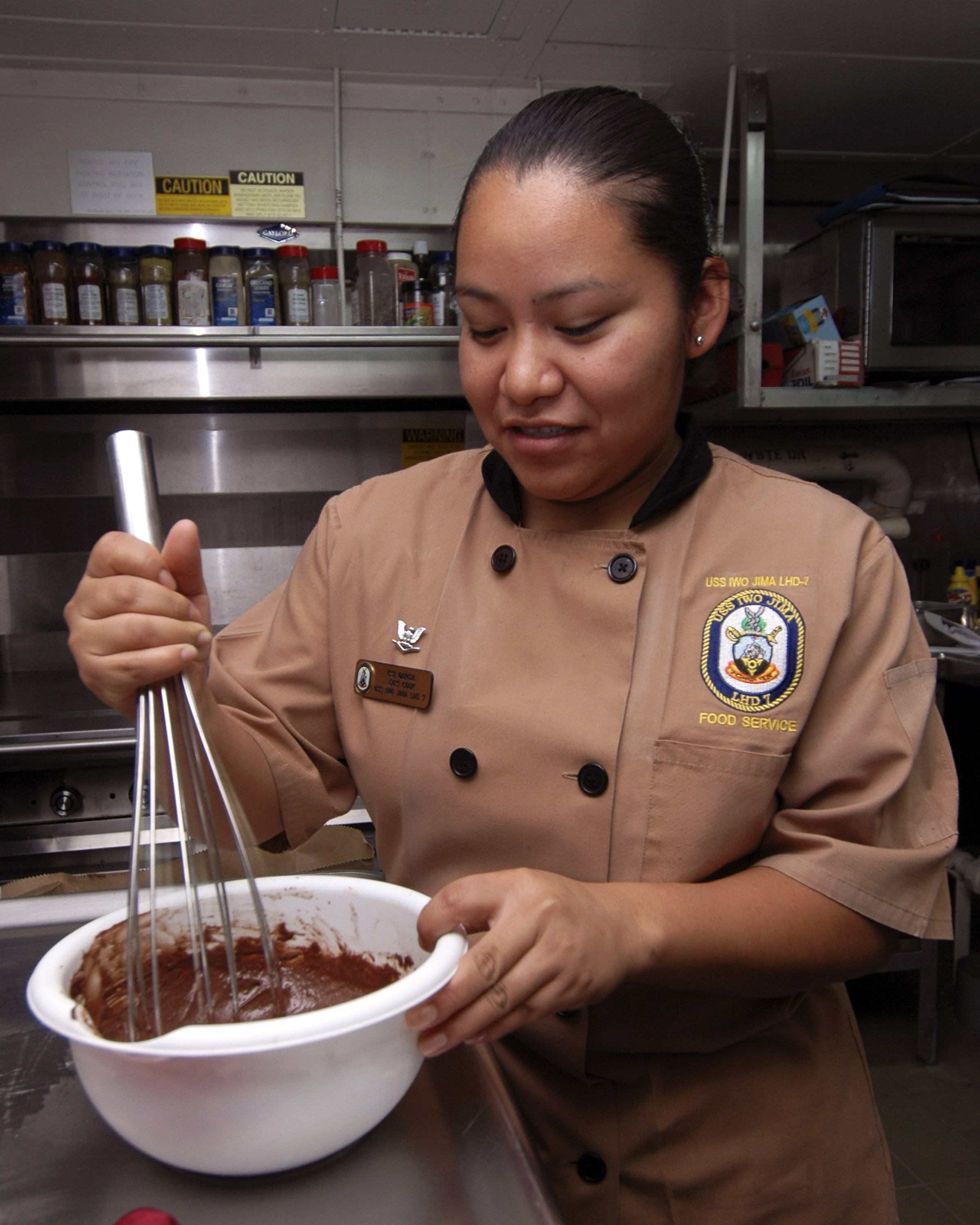 ATLANTIC OCEAN (Sept. 26, 2007) - Culinary Specialist 3rd Class Elizabeth Garcia-Vargas, from Monterey Bay, Calif., mixes brownie batter in the commanding officer's galley aboard amphibious assault ship USS Iwo Jima (LHD 7). Iwo Jima is underway conducting sea trials. U.S. Navy photo by Mass Communication Specialist Christopher L. Clark (RELEASED)